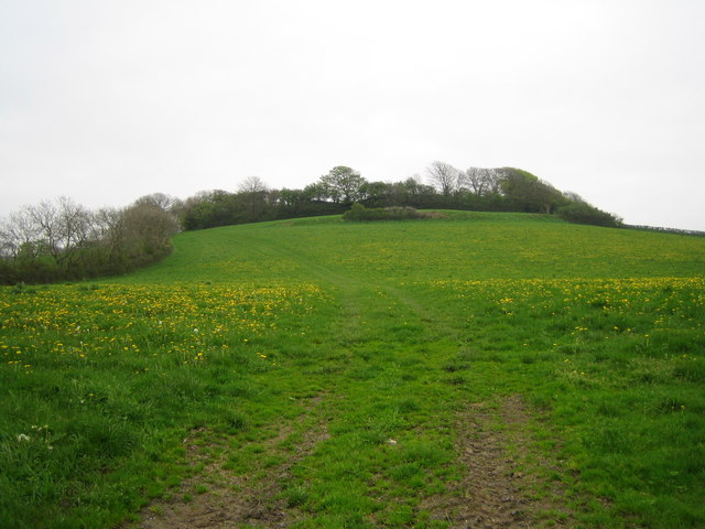 The Rath From a gateway on Tori-gwddwg Hill on the road from New Bridge to Crundale. A "Rath" is a circular earthwork with bank and ditch. Beautiful dandelions in the foreground.